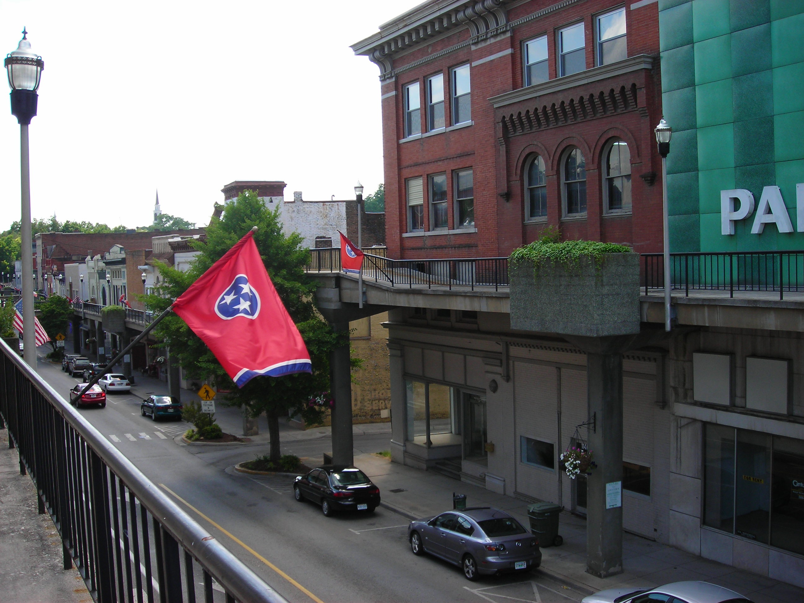 Morristown, Tennessee, the seat of Hamblen County, in an effort to revitalize its stagnating downtown commercial district, has constructed an elevated sidewalk over portions of Main Street, referred to as the "Sky Walk." Photo taken by myself, Scott Basford, on June 5, 2006.